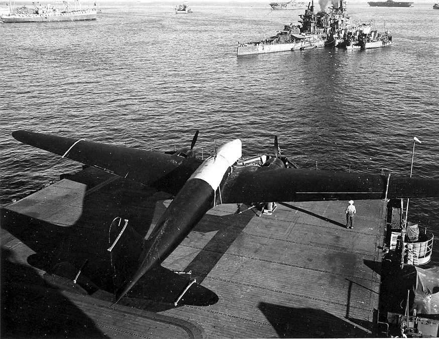 Japanese airplane Ki-77(A-26) cariied on USS Bogue